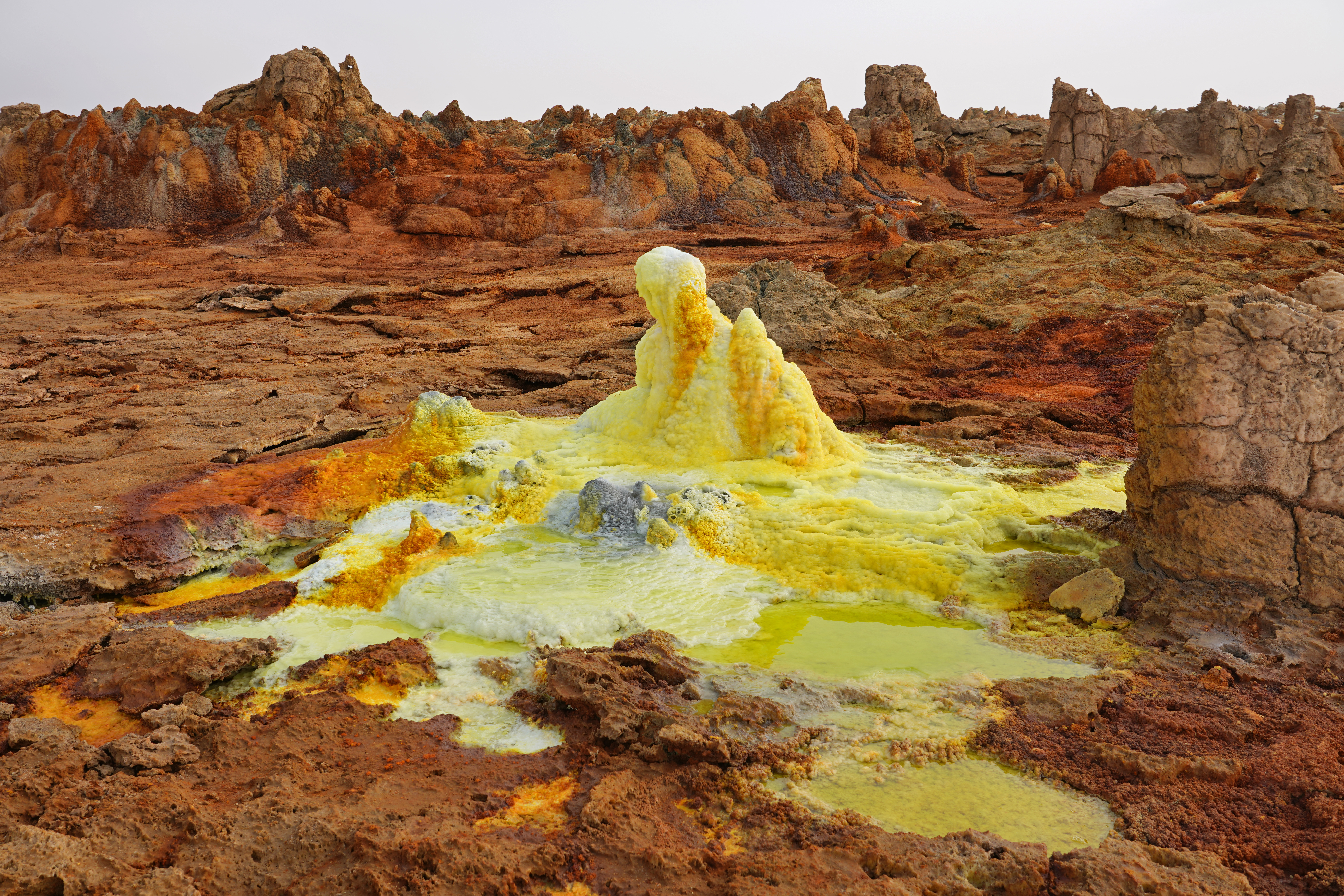 Landscape at Dallol volcano, Afar Region, Ethiopia